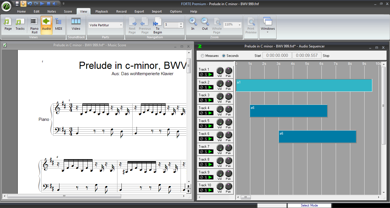 Screenshot of Forte (notation program)